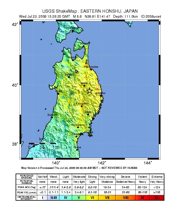 USGS ShakeMap : EASTERN HONSHU, JAPAN Wed Jul 23, 2008 15:26:20 GMT M 6.8 N39.79 E141.43 Depth: 111.7km ID:2008uva4 Map Version 1 Processed Wed Jul 23, 2008 09:48:41 AM MDT -- NOT REVIEWED BY HUMAN